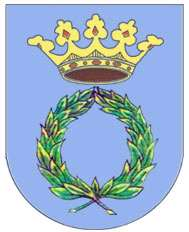 Stary herb Lanckorony